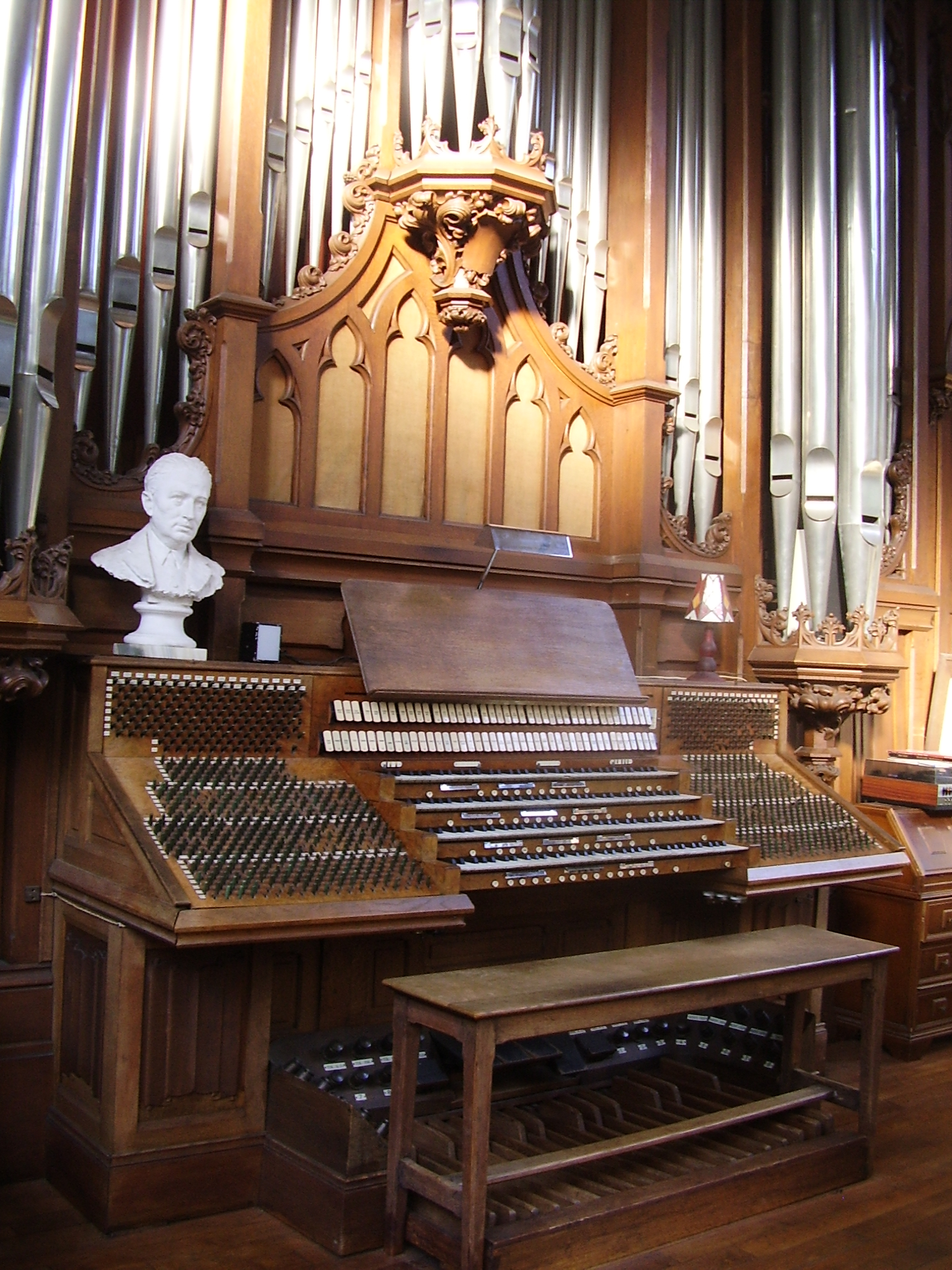 Organ of Marcel Dupré, Meudon, France